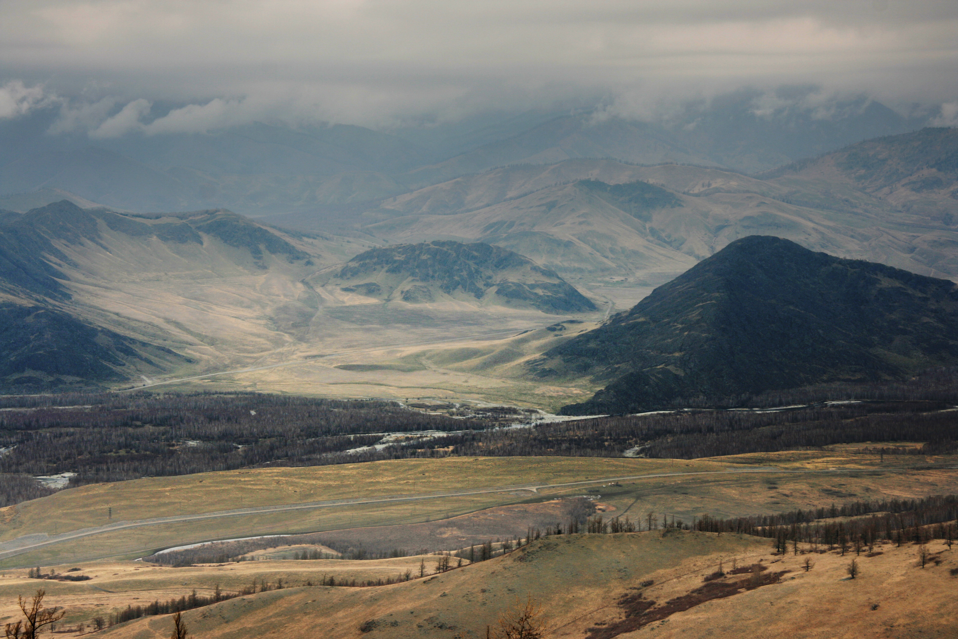 Bukhtarma river, East-Kazakhstan Province